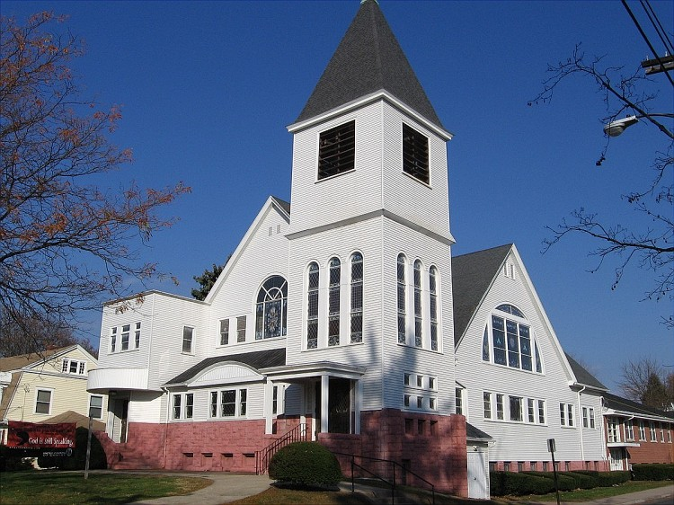 Second Congregational Church, Manchester, Connecticut. Part of the Union Village Historic District.